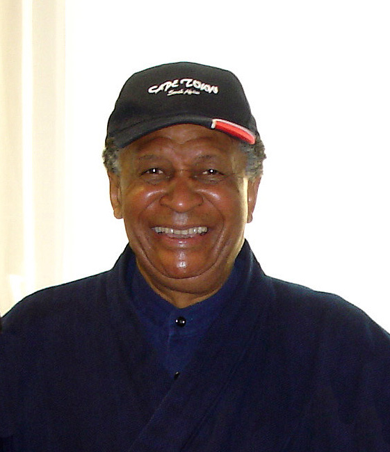 Abdullah Ibrahim, South African pianist and composer